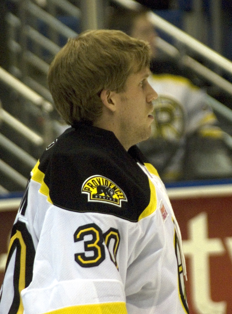 ERI_3073 Providence Bruins vs Connecticut Whale in American Hockey League action at the XL Center in Hartford, Connecticut. This photo was taken by Sarah Connors on January 15, 2011 using a Nikon D200. This photo also appears in sarah_connors' Flickr photostream, and is one of a set of 216 "Providence @ Whale, 1/15/11" Tags: Boston Bruins, Providence Bruins, New York Rangers, Connecticut Whale, NHL, AHL, XL Center, hockey, icehockey, Hartford Wolf Pack